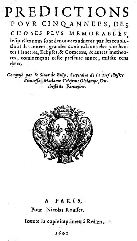 Title page of Himbert de Billy's Prédictions pour cinq années (Rouen, 1602).